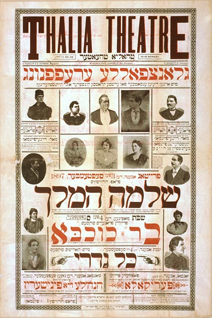 King Solomon at the Thalia Theatre, New York, Josef Kroger, 1897.